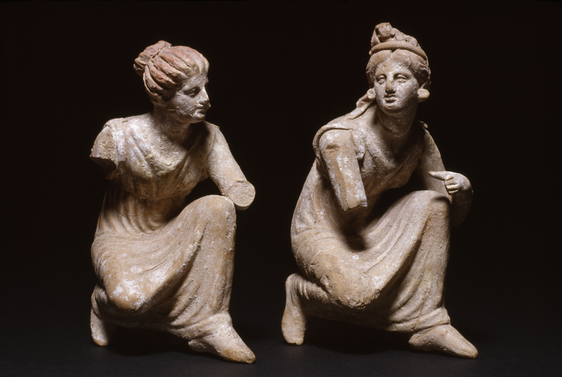 The maidens are playing an ancient form of jacks, known as "astragalus" (knucklebones), a game in which five small animal bones were tossed into the air and caught on the back of the hand. The grouping of separate statuettes is almost unknown before Hellenistic times, when artists became fascinated both by the interaction of figures and by the challenge of representing complex poses, such as this crouching stance.